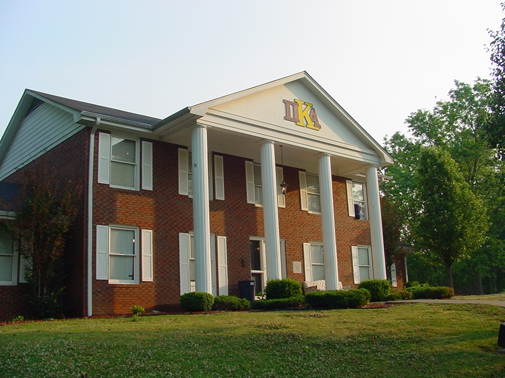 Taken by me of the Pi Kappa Alpha House on the University of North Alabama Fraternity Row, May 22, 2007.